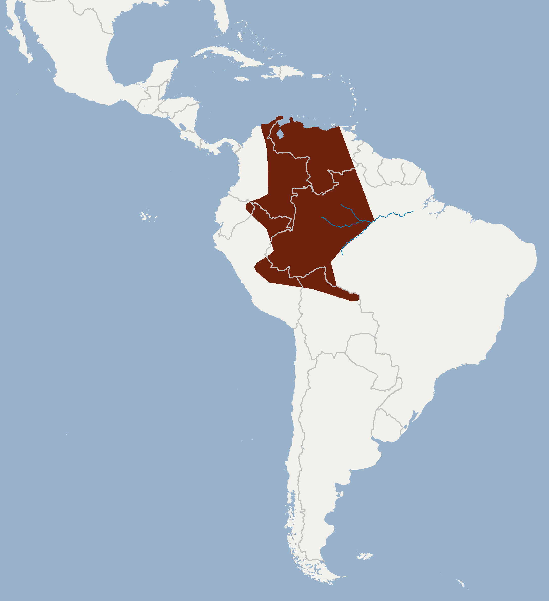 According to Gardner, 2008